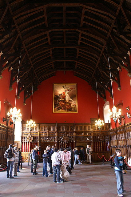 The Great Hall, Edinburgh Castle Restored to former glory, although it has been used as barracks on more than one occasion in its history.